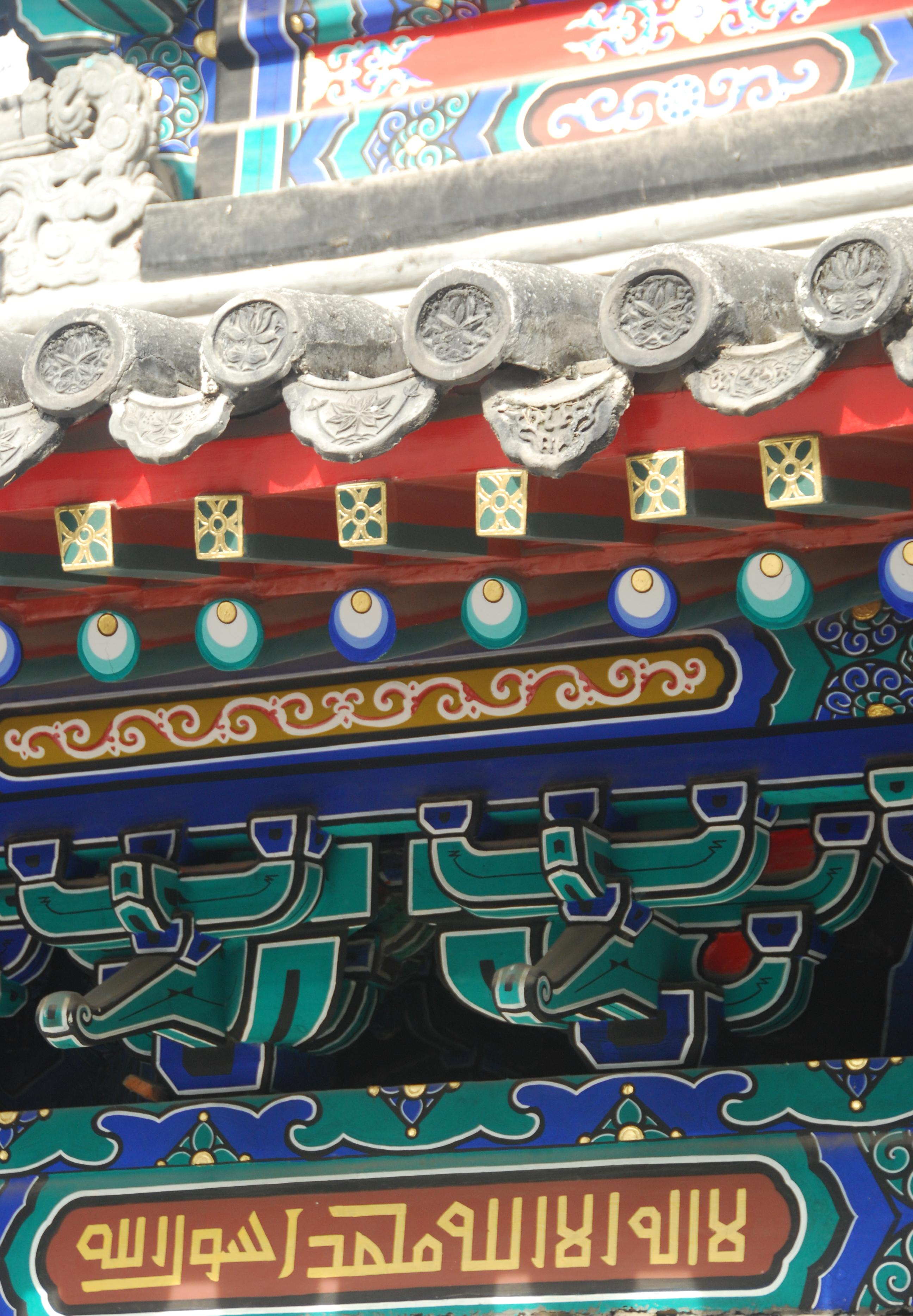 This is one of the Niujie Mosque tower exterior detailsBahasa Indonesia: Ini adalah salah satu eksterior dari salah satu bangunan di komplek Masjid Niujie, Beijing